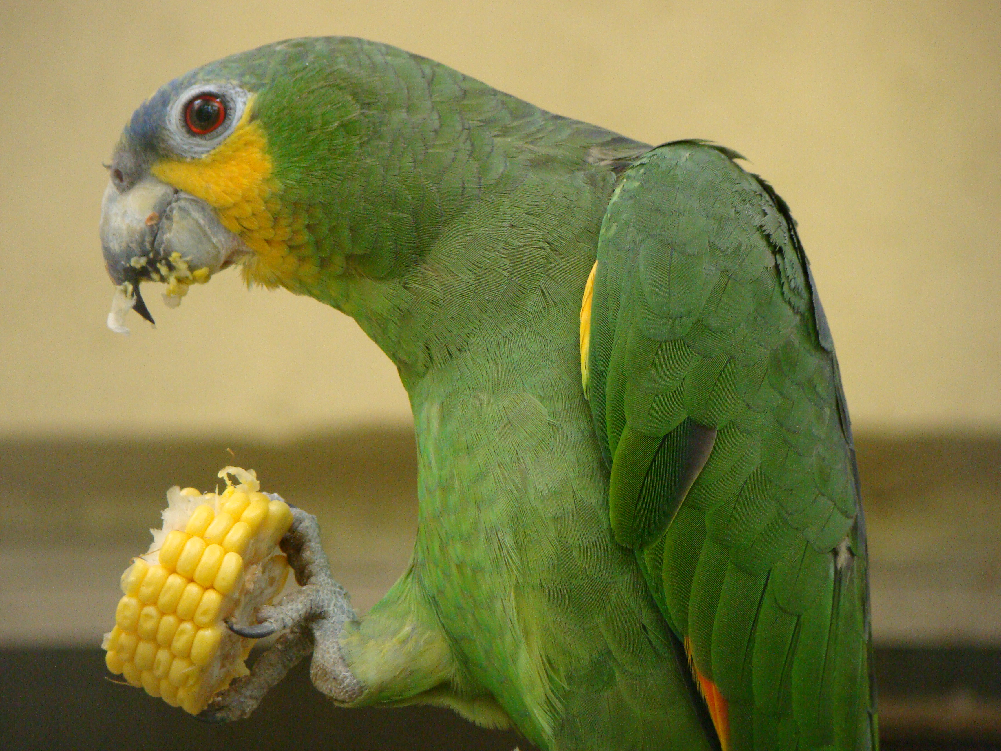 An Orange-winged Amazon at Kuala Lumpur Bird Park, Malaysia. It is eating a slice of corn on the cob.